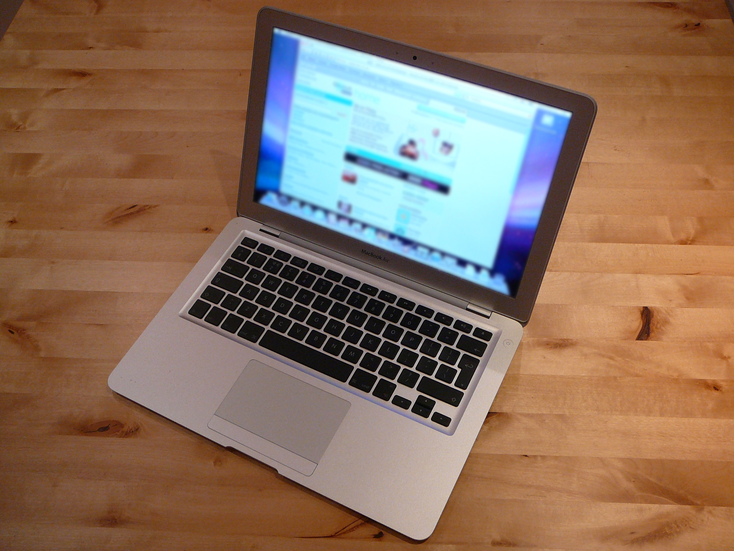 See related blog post